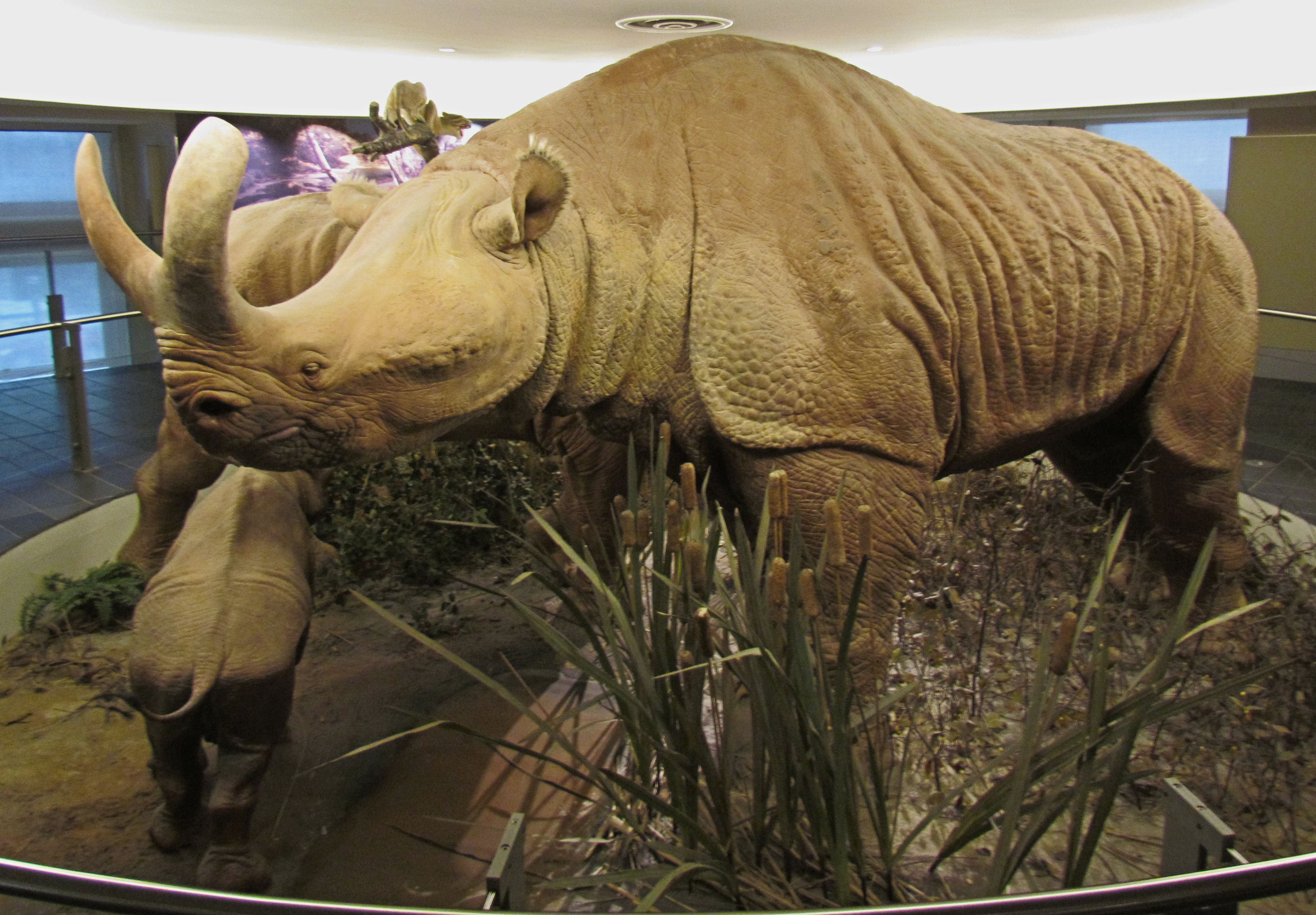 Megacerops, model group, Canadian Museum of Nature, Ottawa, Ontario, Canada